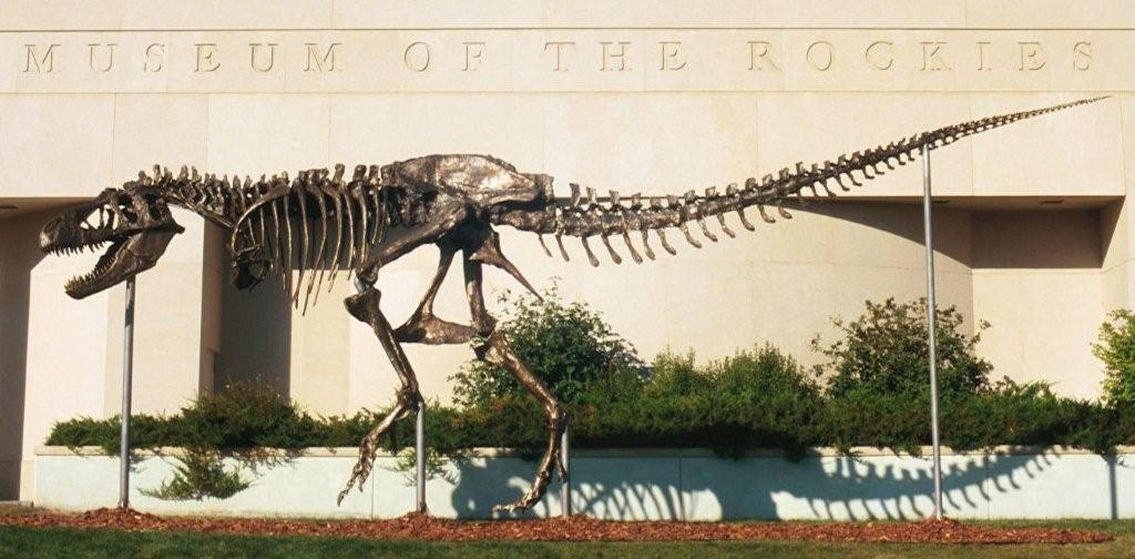 Bronze cast of MOR 555 ("Wankelrex") outside the Museum of the Rockies. The bronze cast are nicknamned "Big Mike".